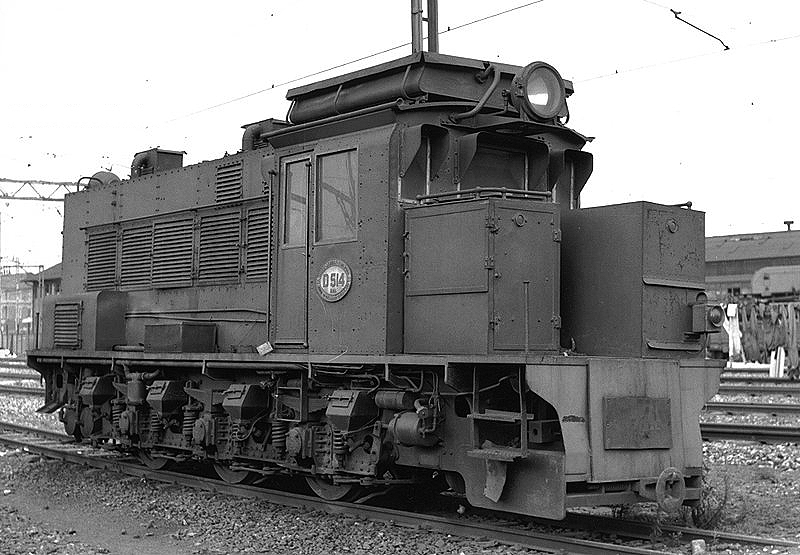 SAR Class DS1 no. D138, later renumbered to D514, plinthed at Braamfontein Electric Repair Shops.